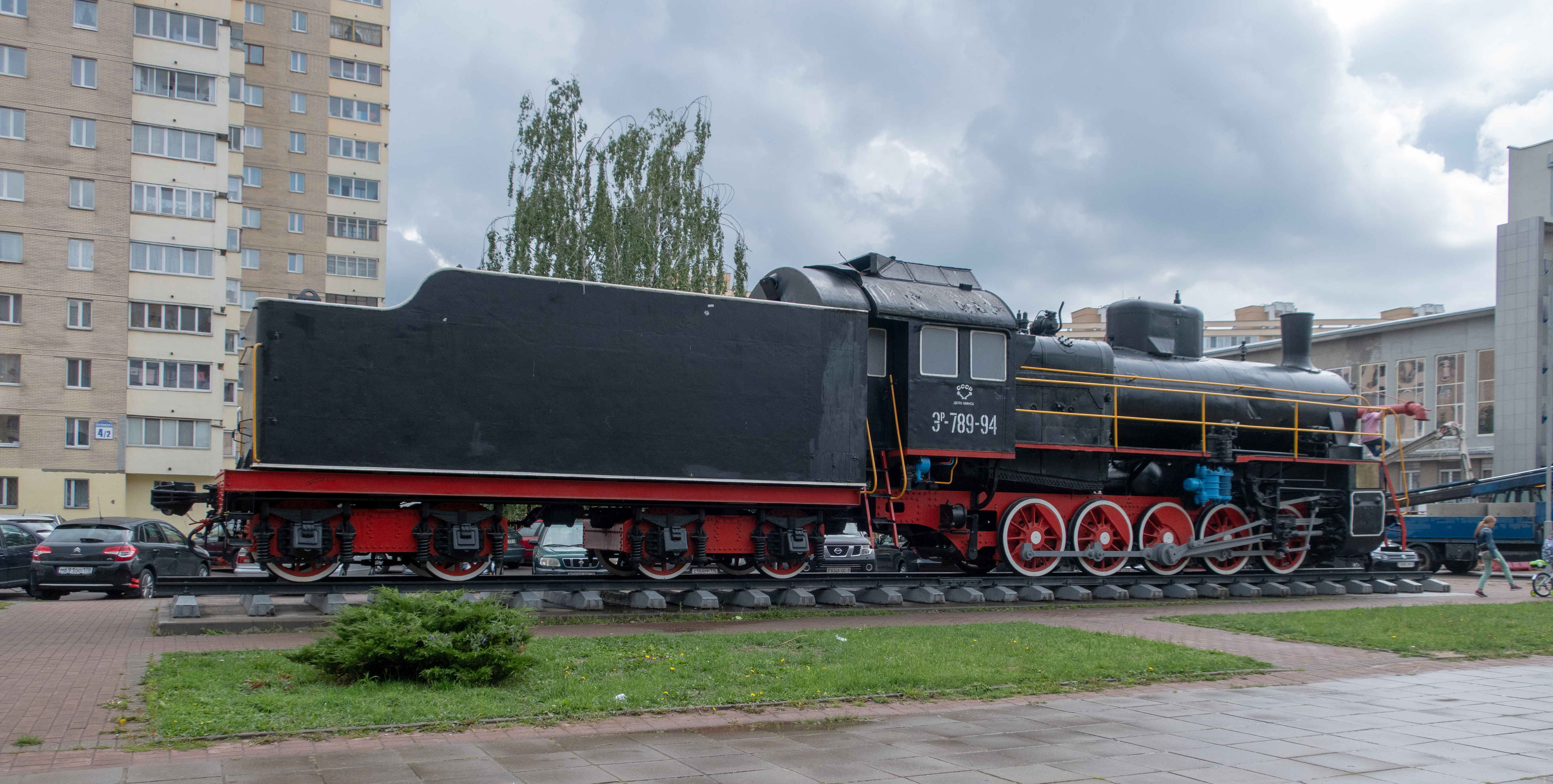 Er steam locotomive in Minsk, Belarus serving as a monument